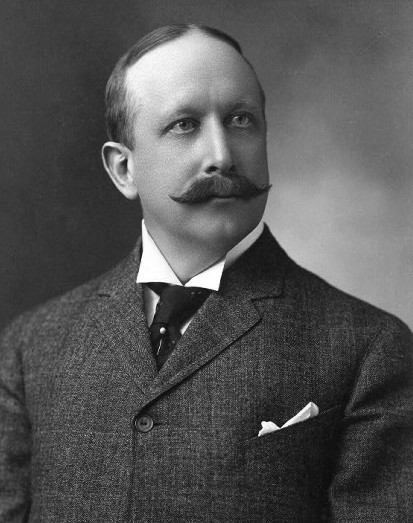 A publicity postcard with the stamp of the Otto Sarony Co. from Billy Rose Theatre Collection photograph file, NYPL.